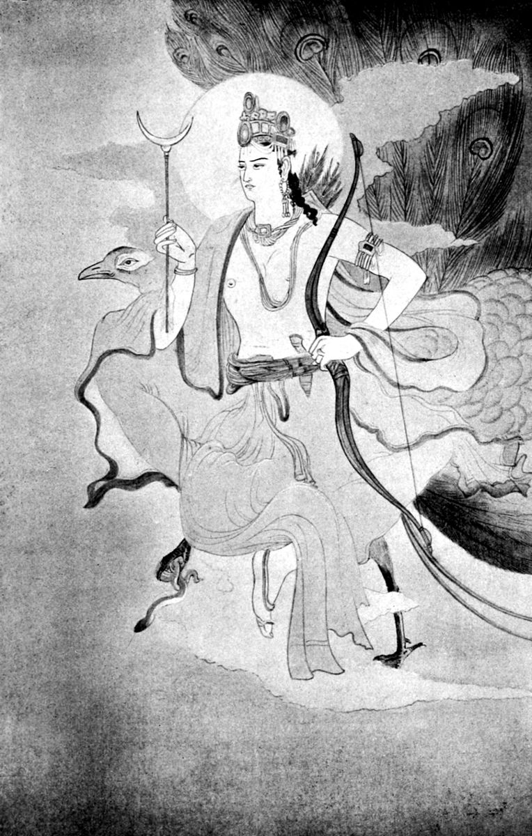 Kartikeya, the war God, from a painting by Surendra Nath Gangoly (by permission of the Indian Society of Oriental Art, Calcutta), as published on the book Indian Myth and Legend, by Donald Alexander Mackenzie.